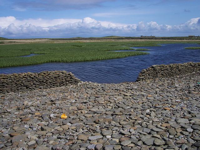 Wetland near Bride's Ness. Looking from the pebble beach across the North Ronaldsay sheep dyke to an area of wetland.